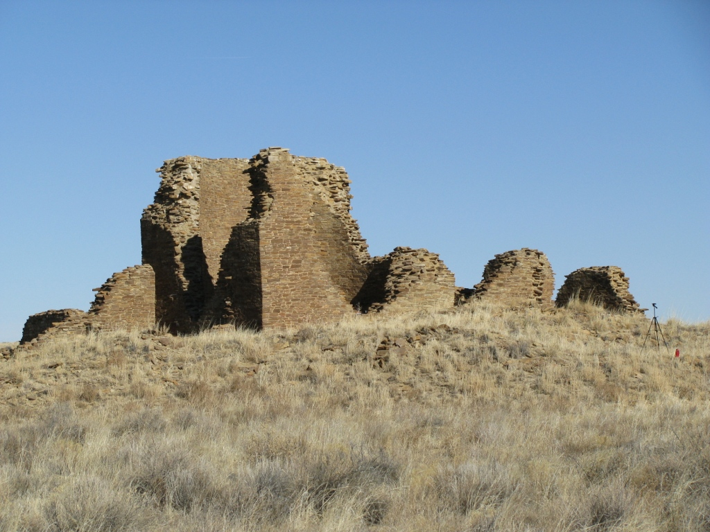 Chaco Canyon culture (New Mexico, U.S.A.), outlier pueblo Kin Klitzin